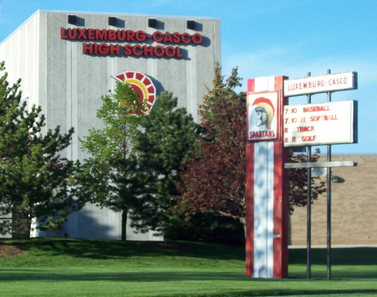 Looking north at Luxemburg, Wisconsin(USA)/Casco, Wisconsin combined high school in Luxemburg.